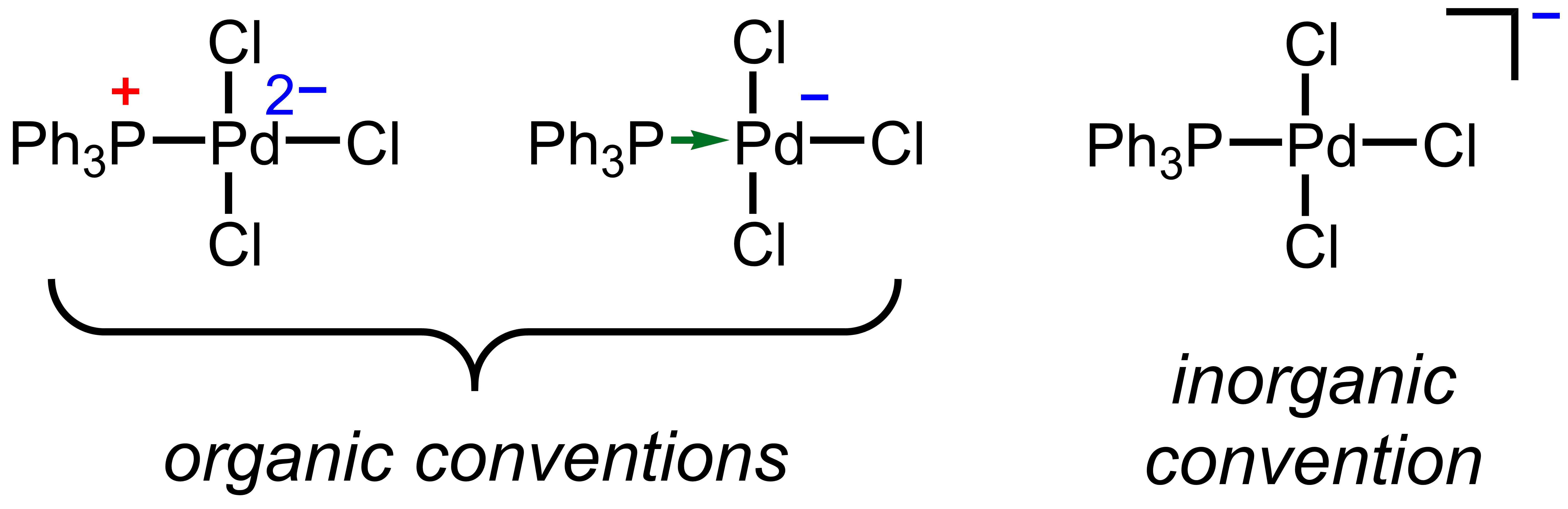 Different ways to depict formal charges in coordination complex (organic/inorganic conventions)